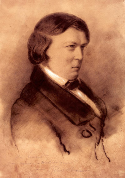 Robert Schumann, drawn by Jean-Joseph Bonaventure Laurens, with a handwritten dedication by Schumann: Hrn. Laurens / zum Andenken in Werthschätzung / von Robert Schumann”.